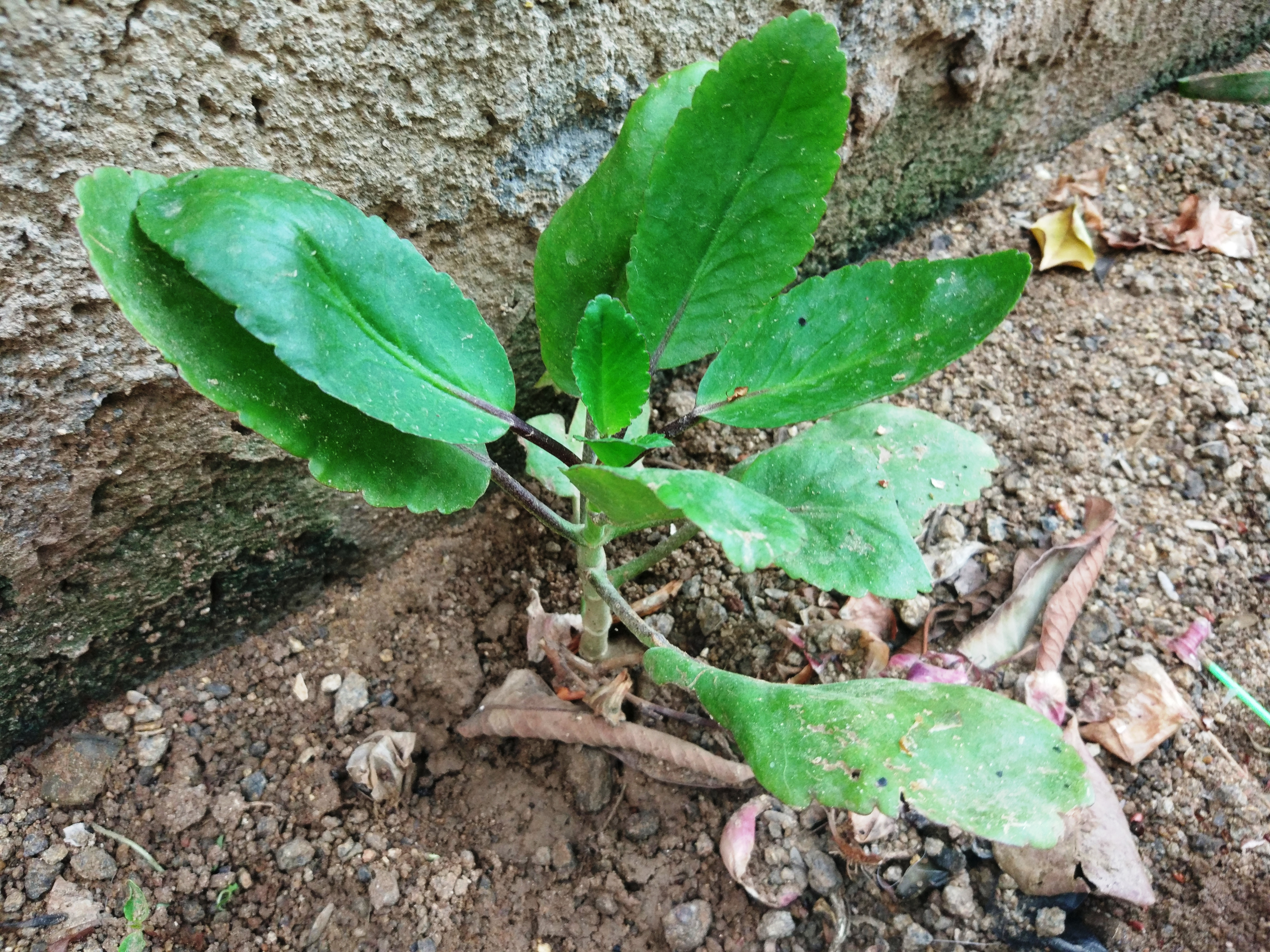 ranakalli plant